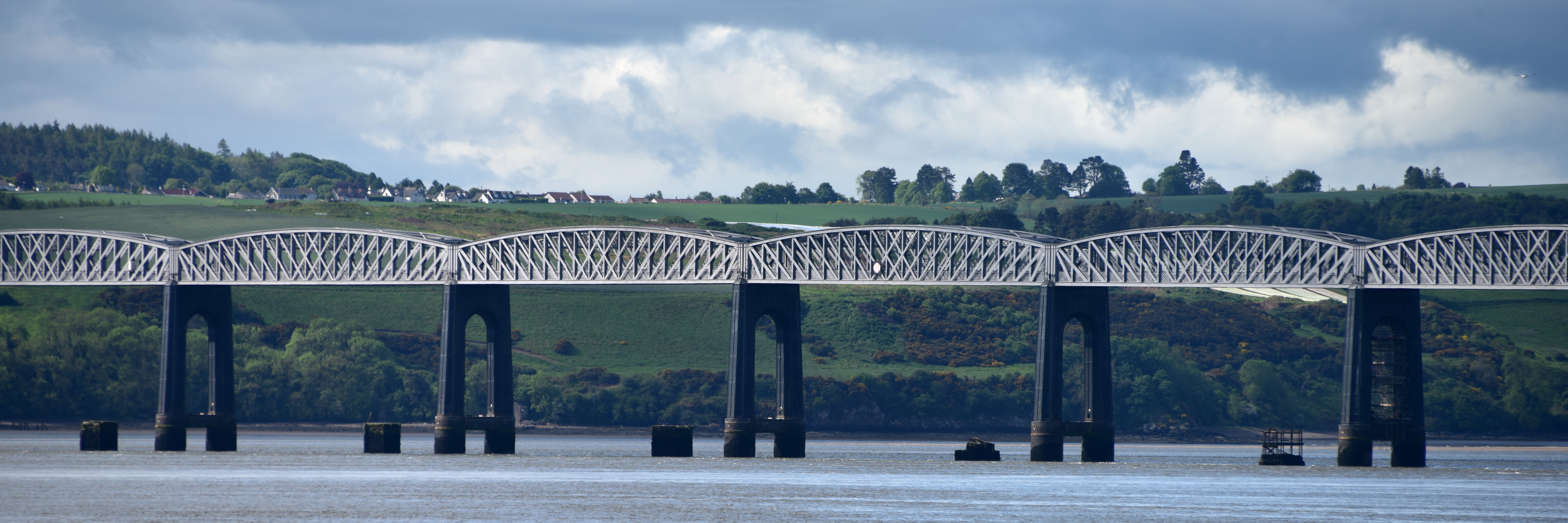 Below the Victorian-era Tay Rail Bridge in Dundee, piers showing where the bridge's predecessor rested before its catastrophic failure in 1879.